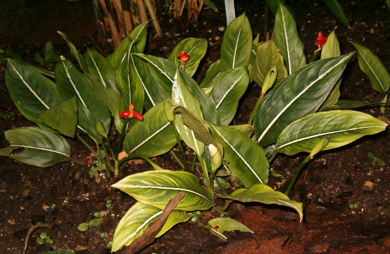 Location: Botanical Gardens Berlin Dahlem